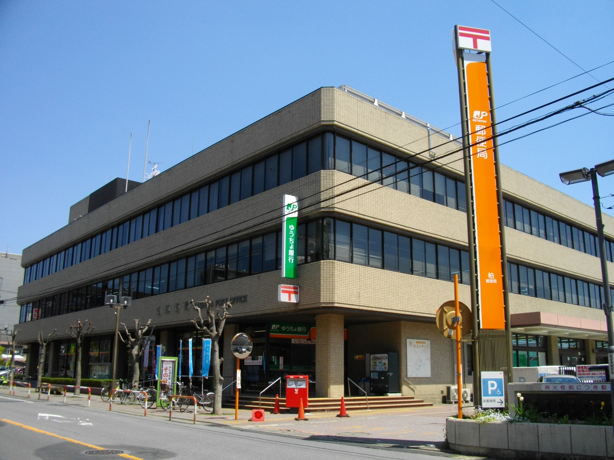 Kashiwa Post Office